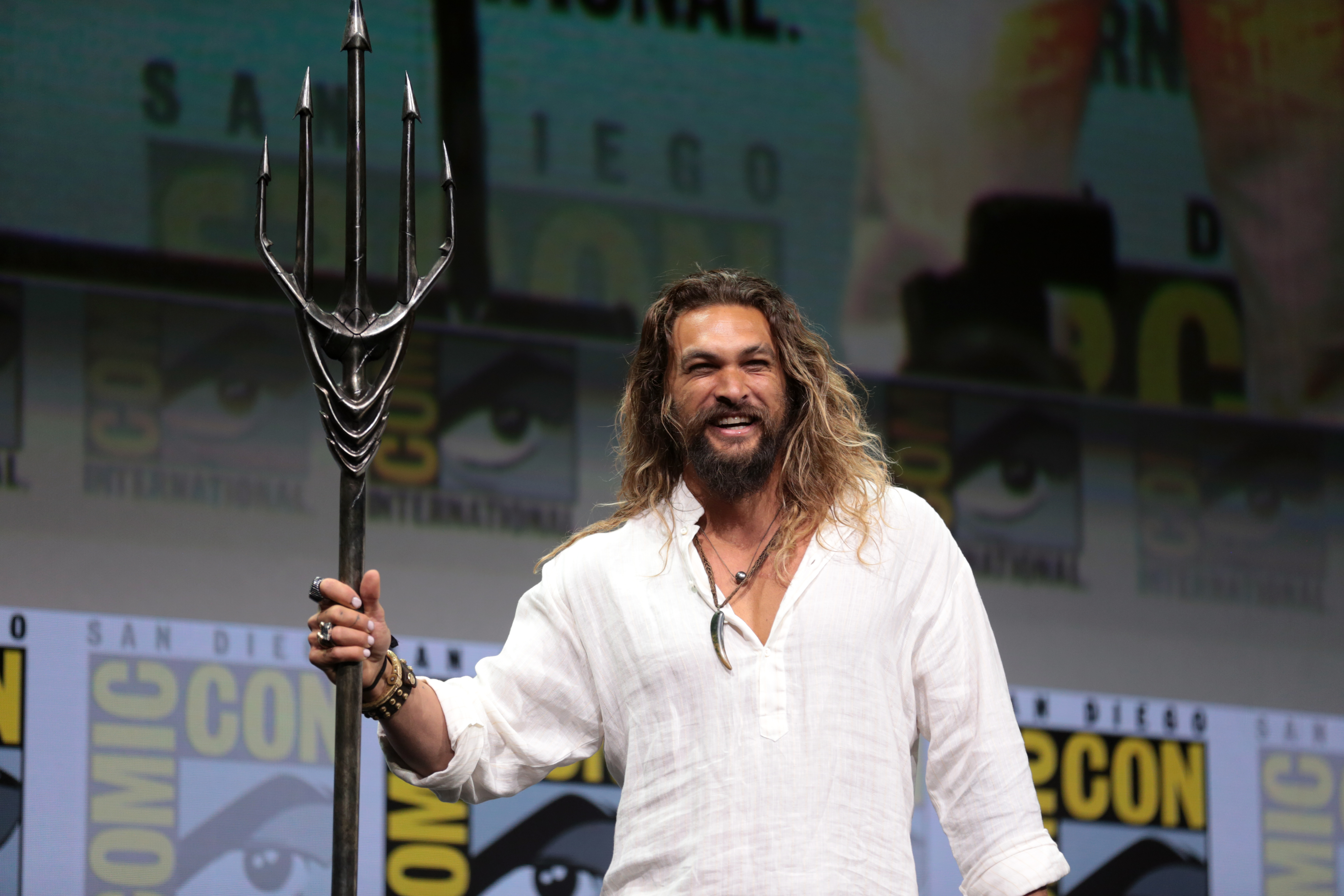 Jason Momoa speaking at the 2017 San Diego Comic Con International, for "Aquaman", at the San Diego Convention Center in San Diego, California.